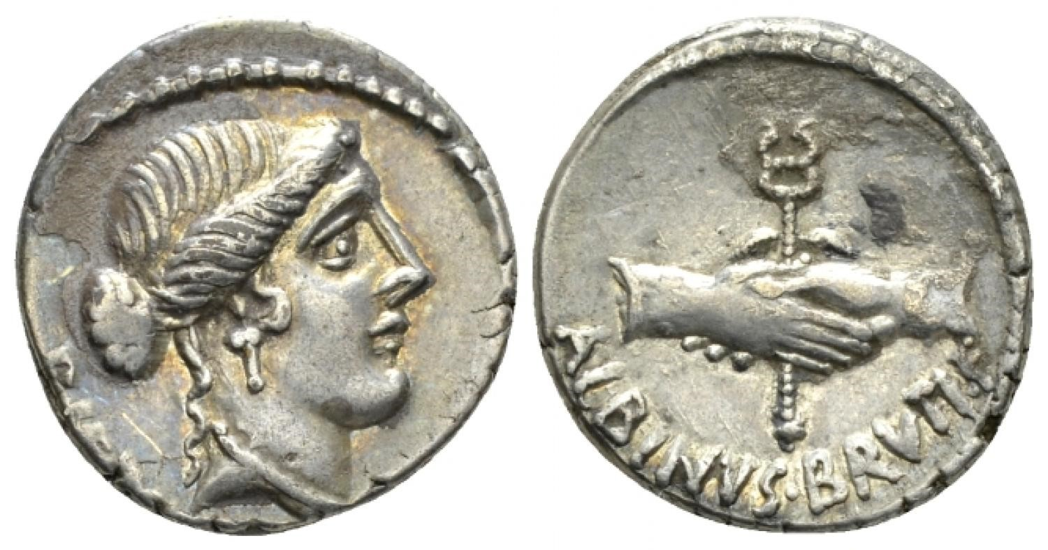 D. Iunius Brutus Albinus. Denarius circa 48, Obv: PIETAS Head of Pietas r. Rev. Two hands clasped round winged caduceus; below, ALBINVS·BRVTI·F.